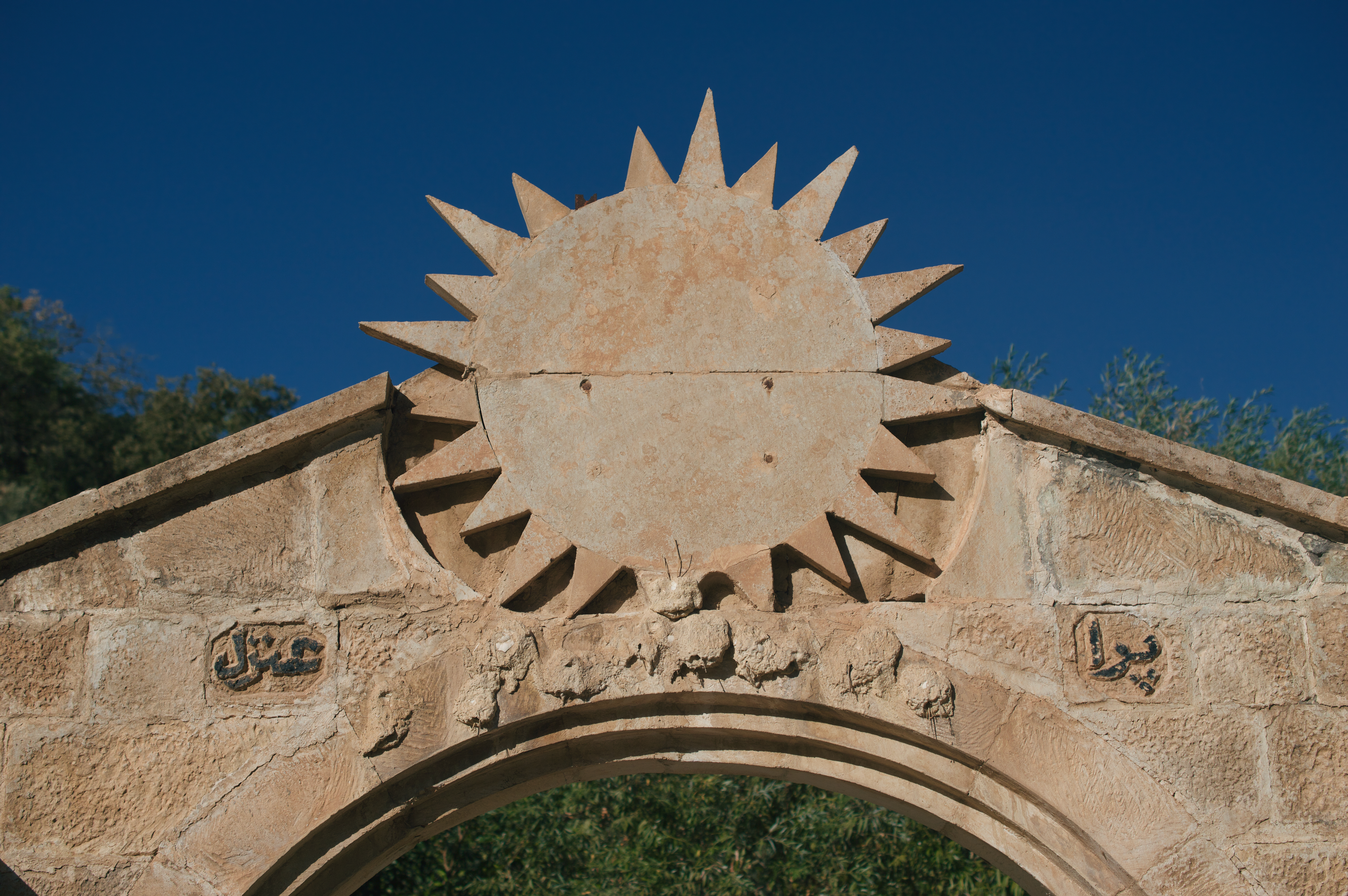 Anzal Bridge in Lalish, the sacred valley of the Yezidis, the holiest place in Ezidkhan, in Duhok Governorate, Kurdistan Region of Iraq